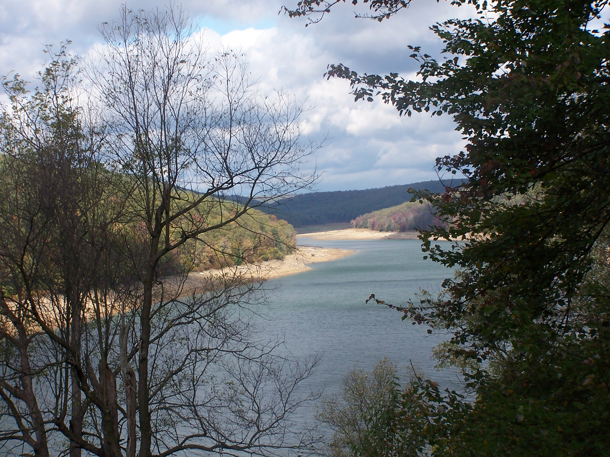 The level of this reservoir varies widely in its function as a flood control for the Clarion & Allegheny Rivers. Under the water at just about the point it disappears around the bend is the town of Instanter. From the late 19th c until the 1920s, this area was nearly clearcut of hemlock - just to get the chemicals out of its bark. Location for this photo reached by driving twelve miles on unpaved roads and walking four miles more. Interestingly, when I located this on the Flickr map, it self identified as Instanter, which I did not know was still used as a geographical location.